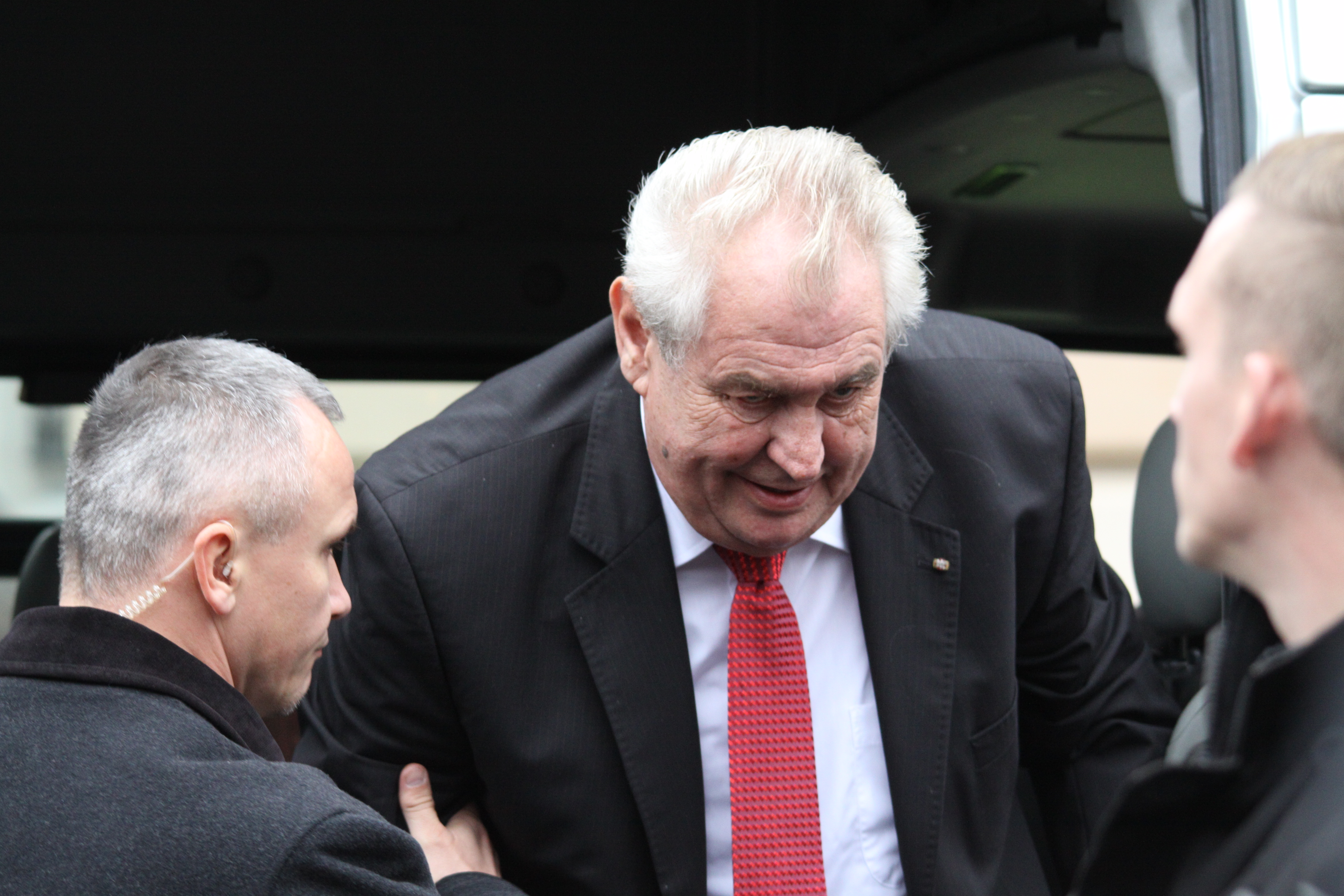 25th anniversary of Velvet revolution on Albertov in Prague, Czech Republic